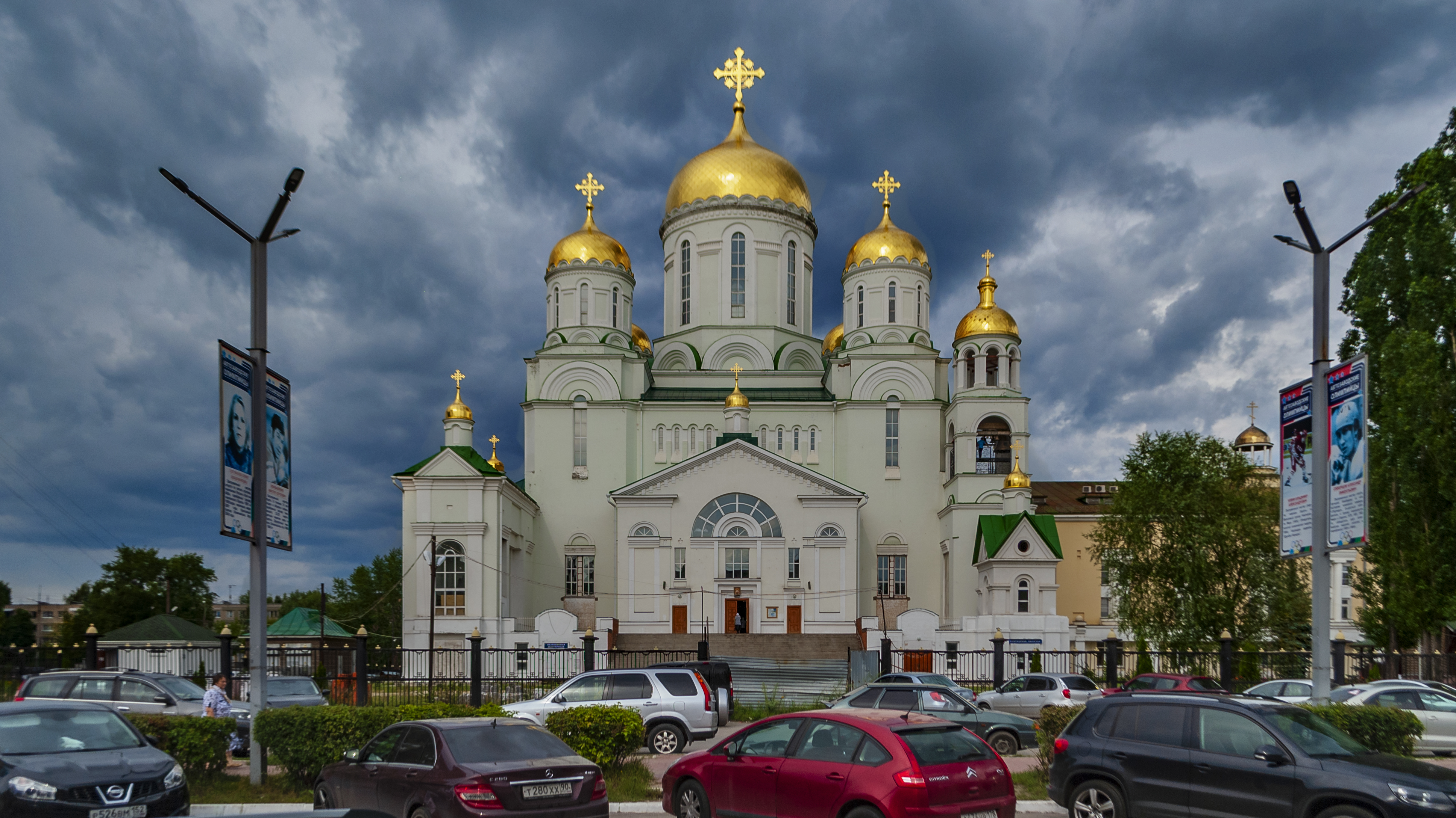 Cathedral parish of St. Nicholas in Nizhny Novgorod